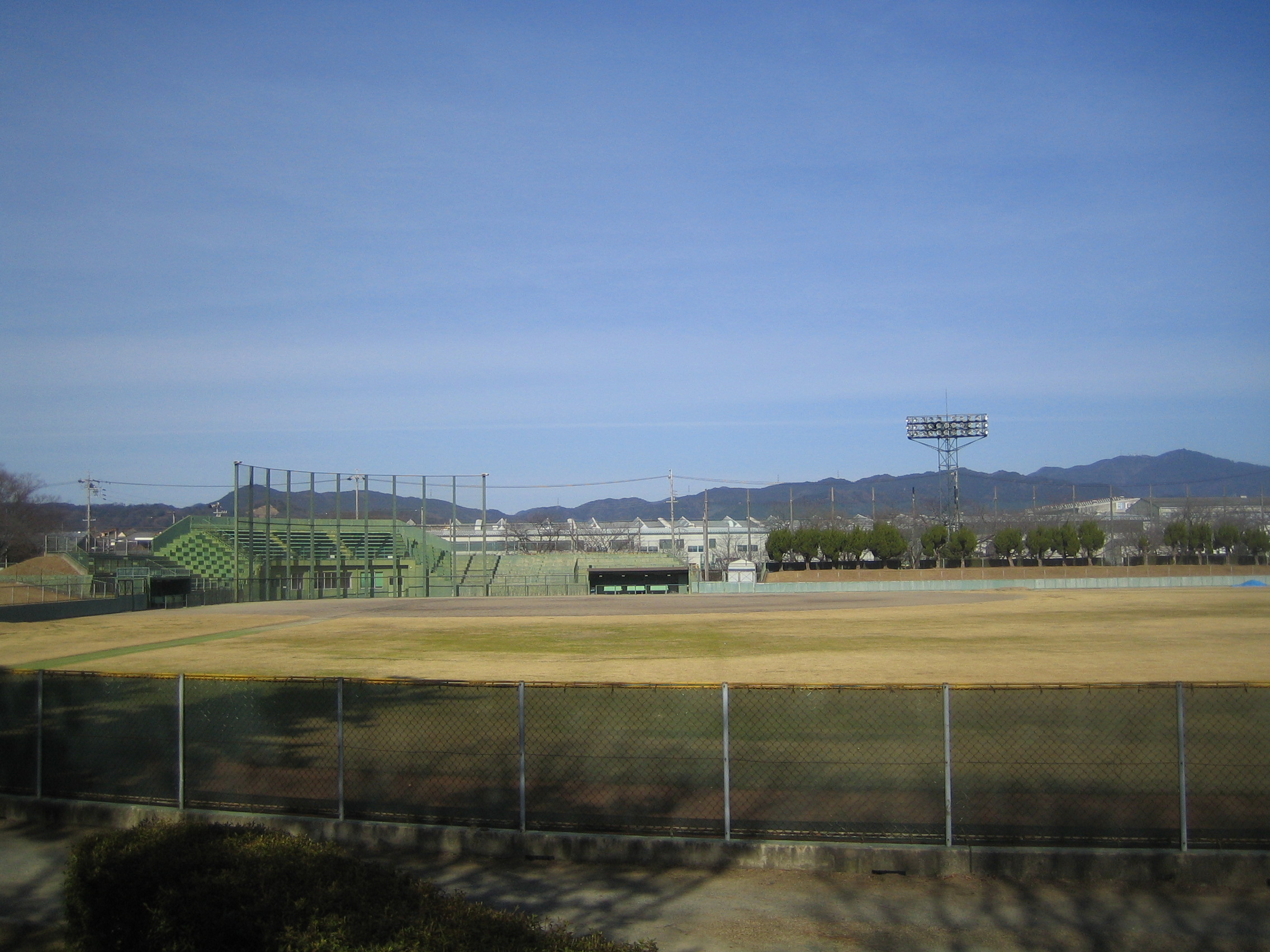 Toyokawa City Baseball Ground (豊川市野球場), located at Suwa, Toyokawa, Aichi, Japan